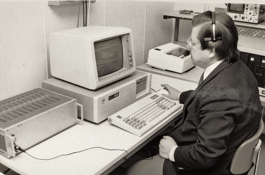 Photograph of the Finnish computing scientist and professor Teuvo Kohonen (1934–).